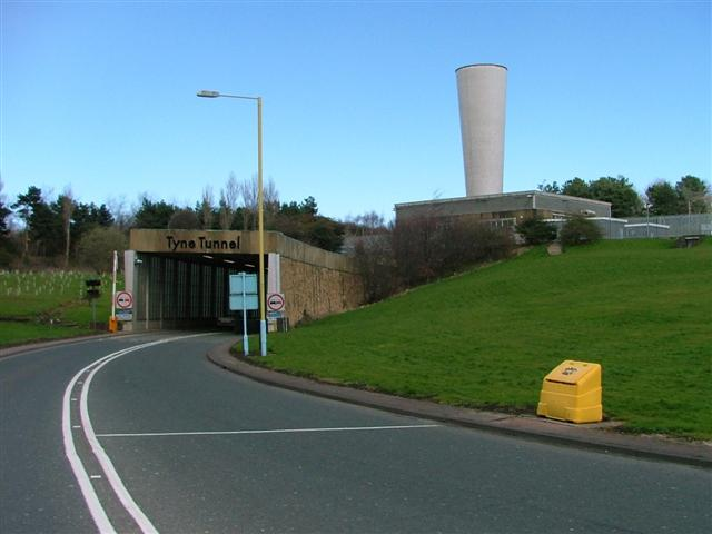 Tyne Tunnel North Entrance. Before anyone comments this was taken from a left hand drive vehicle driven by my wife.